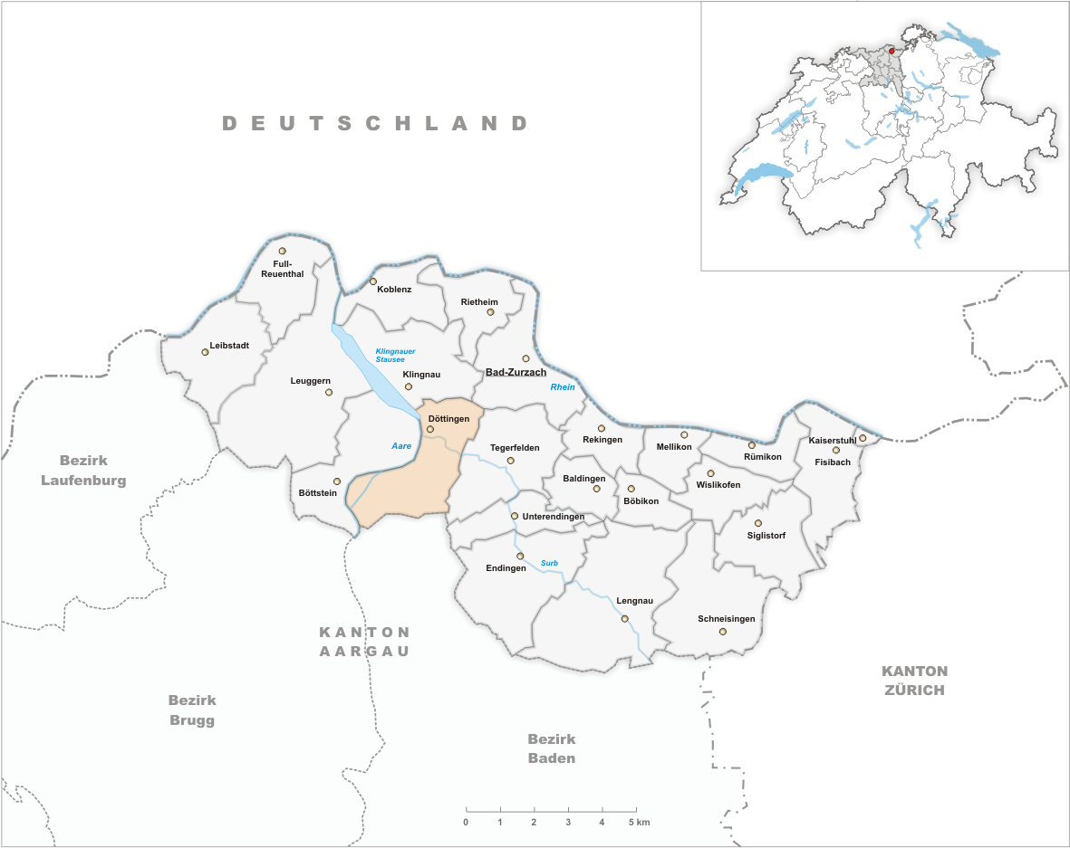 Municipality Döttingen